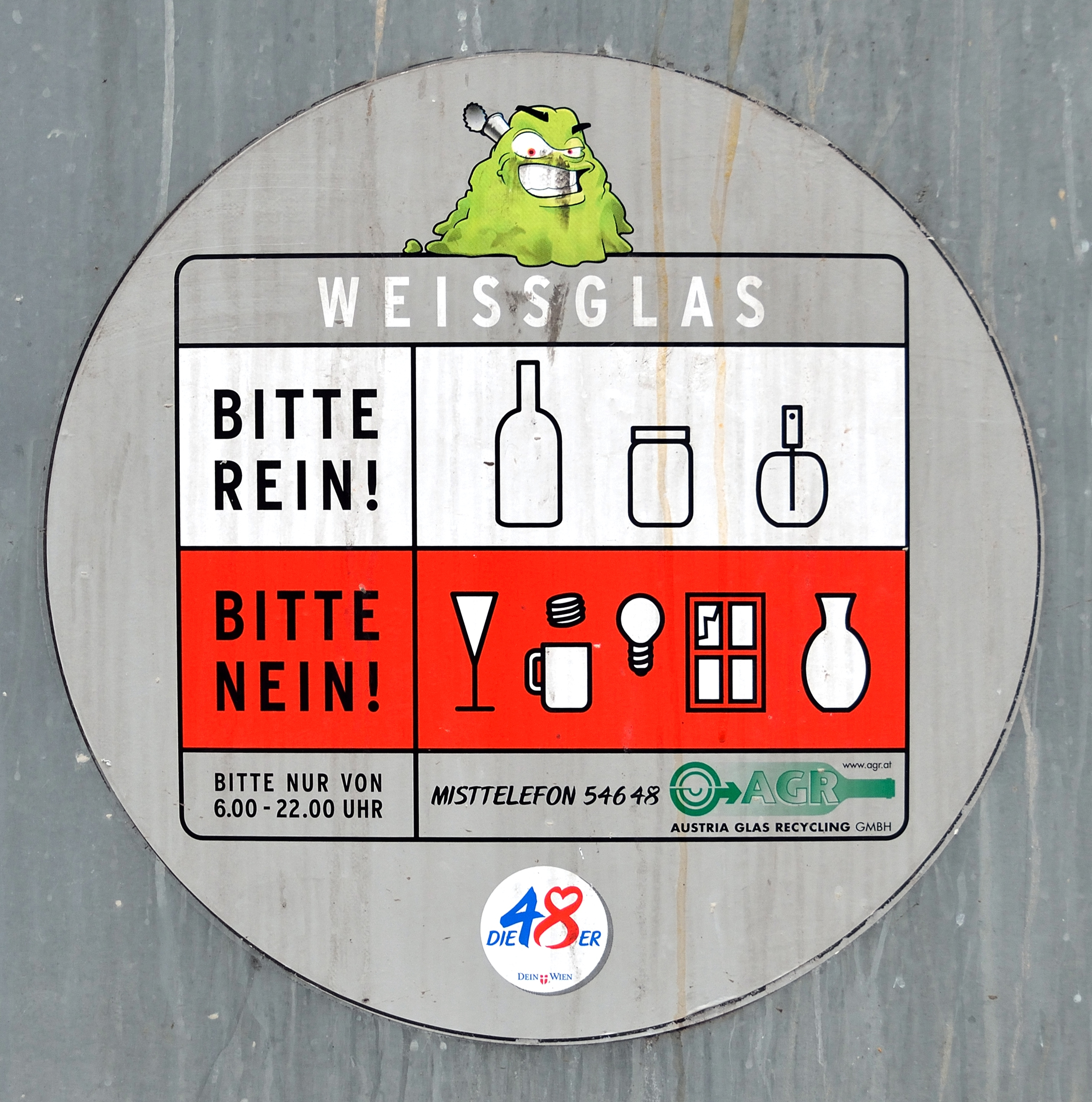 Sorted waste containers at Sechshauser Straße, Vienna. There are separate containers for plastic bottles, metals, colored and white glass, biodegradable waste. The green being is the Müllmonster (waste monster).